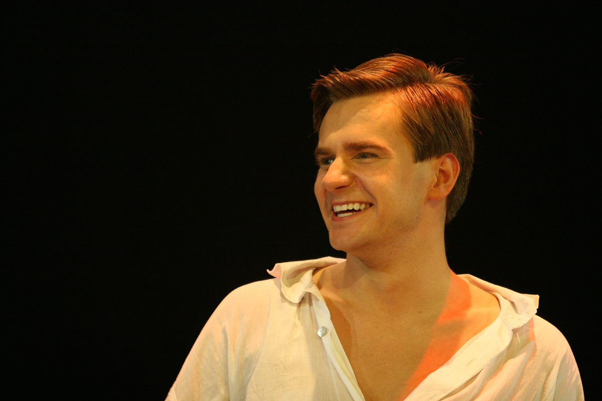 Marcin Mroziński as Vicomte de Chagny in the musical "The Phantom of the Opera" in Roma Musical Theatre in Warsaw, 16.11.2008